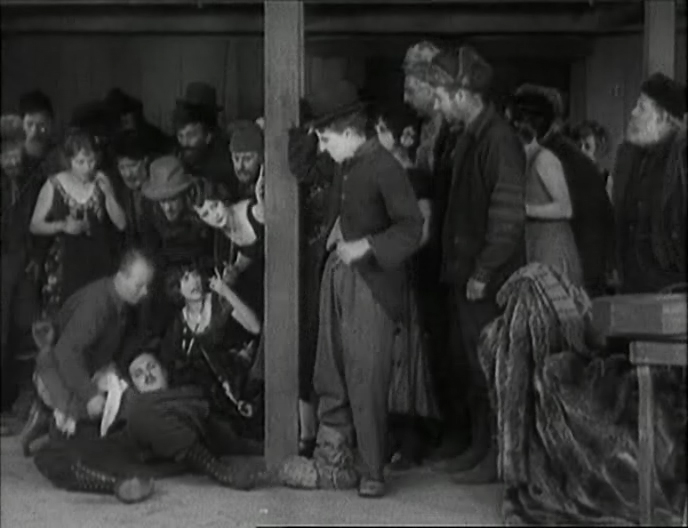 Scene from the movie The Gold Rush. 1925.